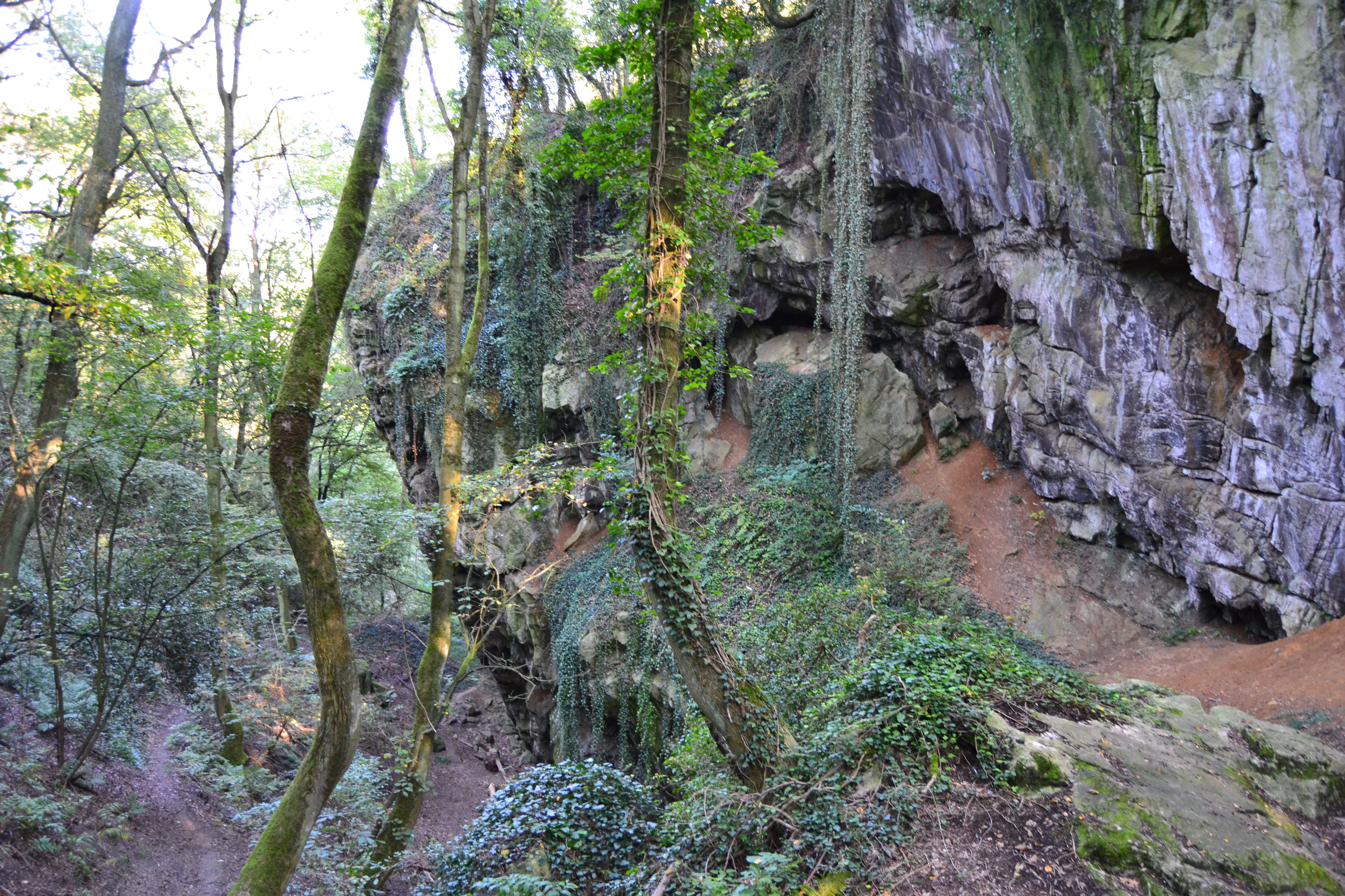 Landscape around the Schmerling Caves, place of the first discovered neandertalian remains by Philippe-Charles Schmerling in 1830 - Awirs, Flémalle / Engis, Liège, Belgium